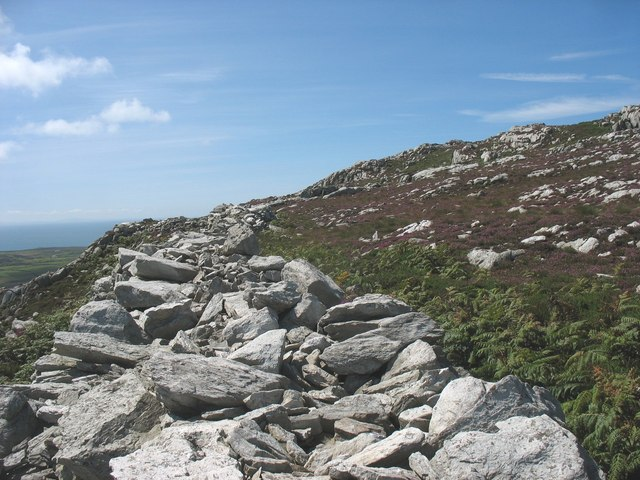 A view along the top of a section of the Caer y Twr hill fort